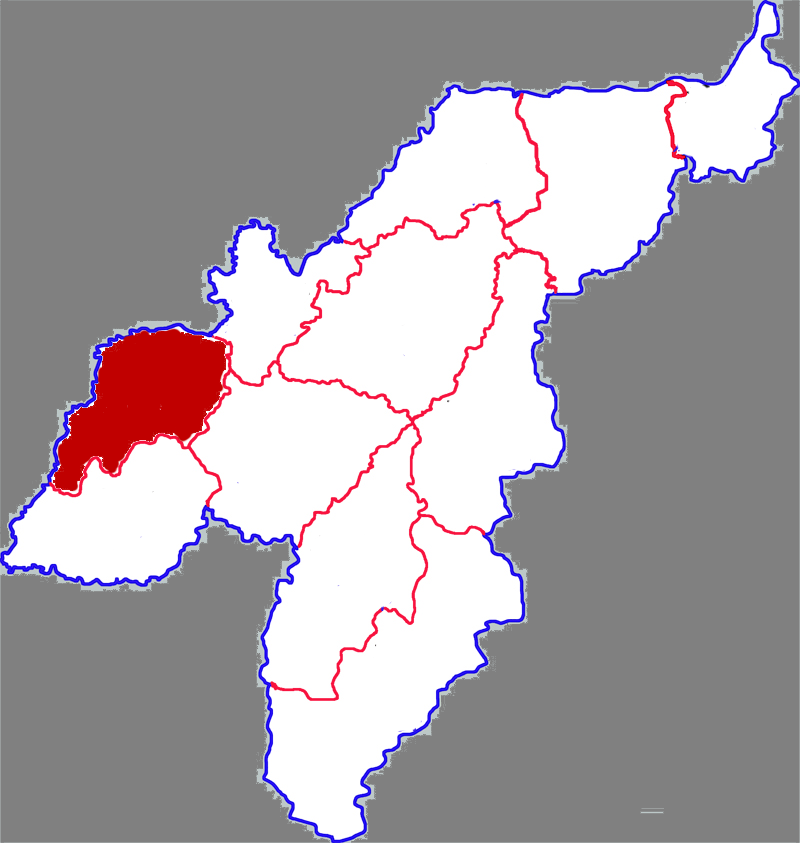 Location of Wucheng county in Dezhou City, China